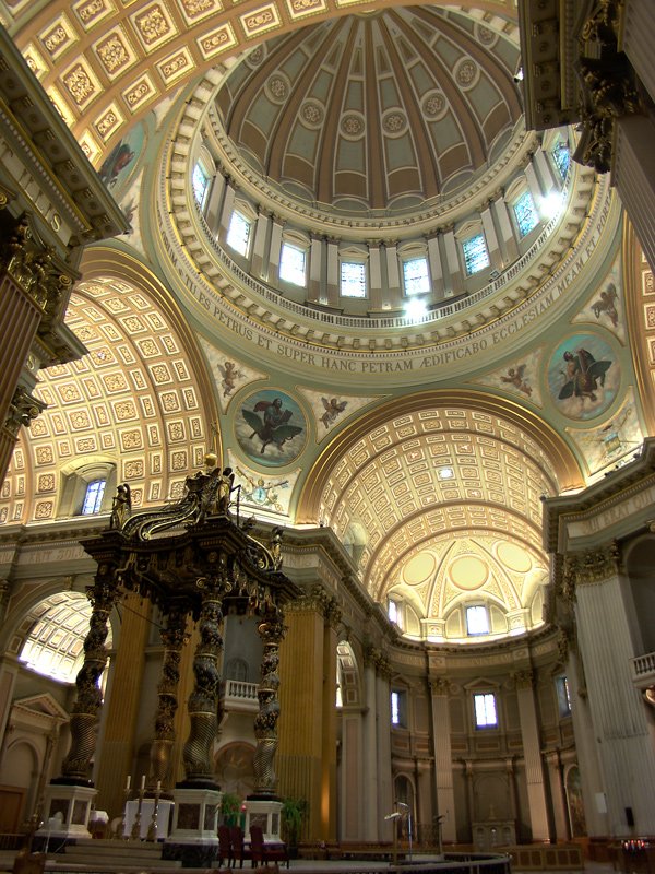 Cathedral-Basilica Mary Queen of the World, Montreal, Quebec, Canada. At the transept crossing in front of the main altar, stands the Baldacchino made in Rome in 1900 by Victor Vincent with red copper. It is a reproduction of Gian Lorenzo Bernini's masterpiece at St.Peter's Basilica in the Vatican.